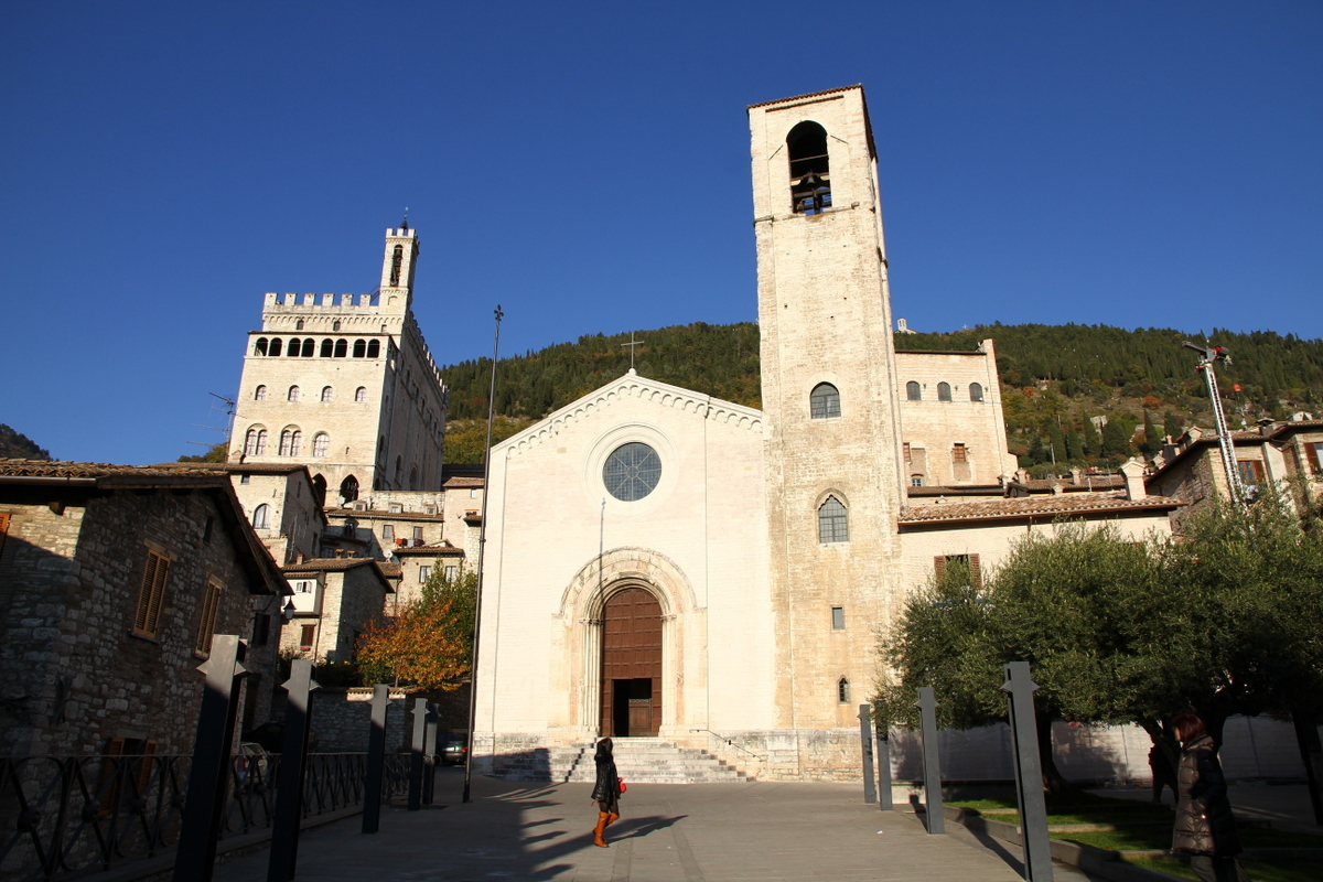 Church of San Giovanni in Gubbio view from outside